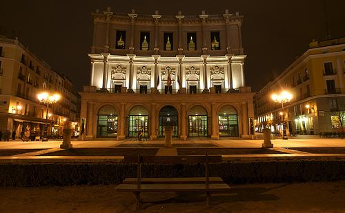 Night view of the west façade of the Teatro Real (opera house and concert hall) in Madrid (Spain).